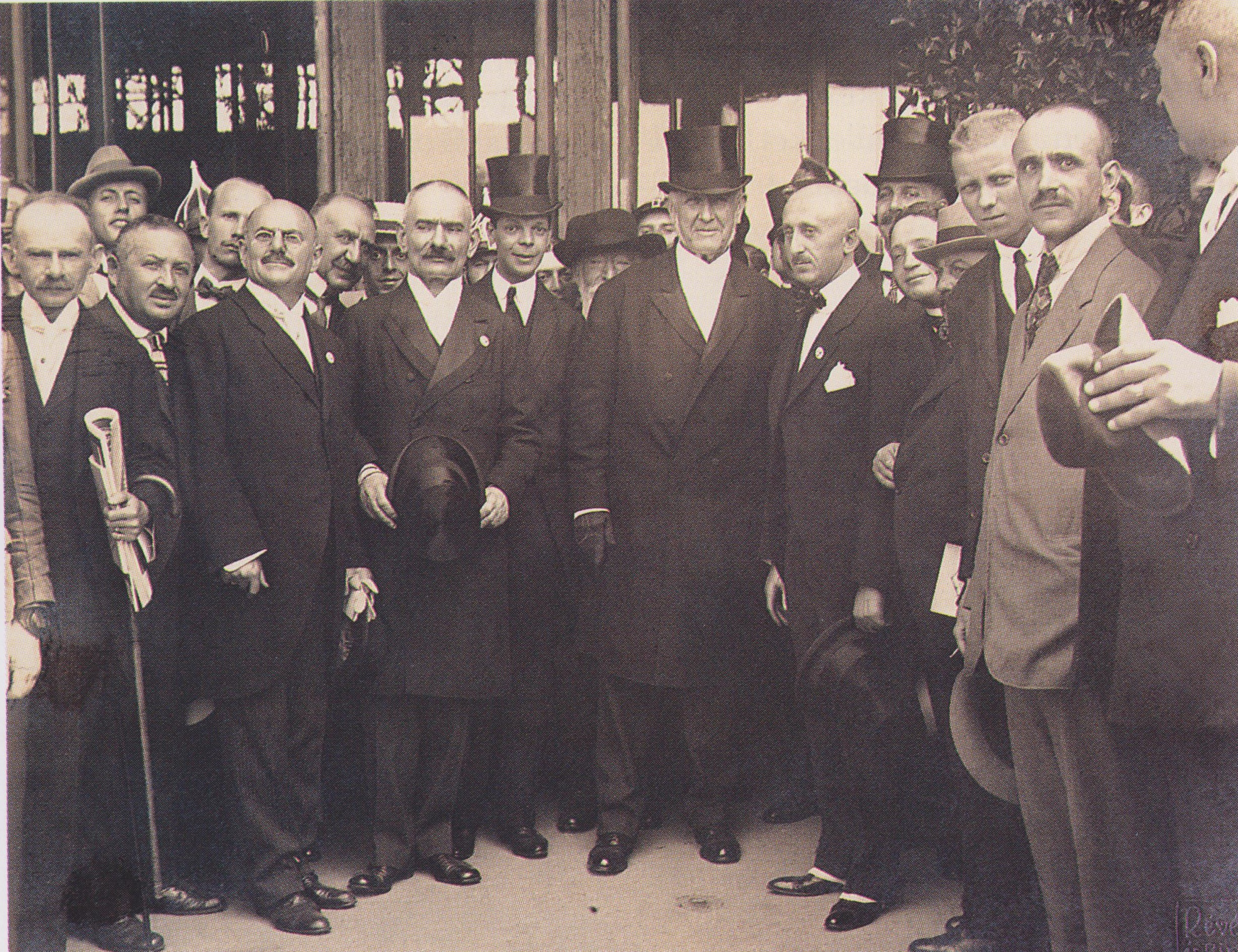 Prime Minister Sándor Wekerle and other officials at the opening of the Eastern Market.